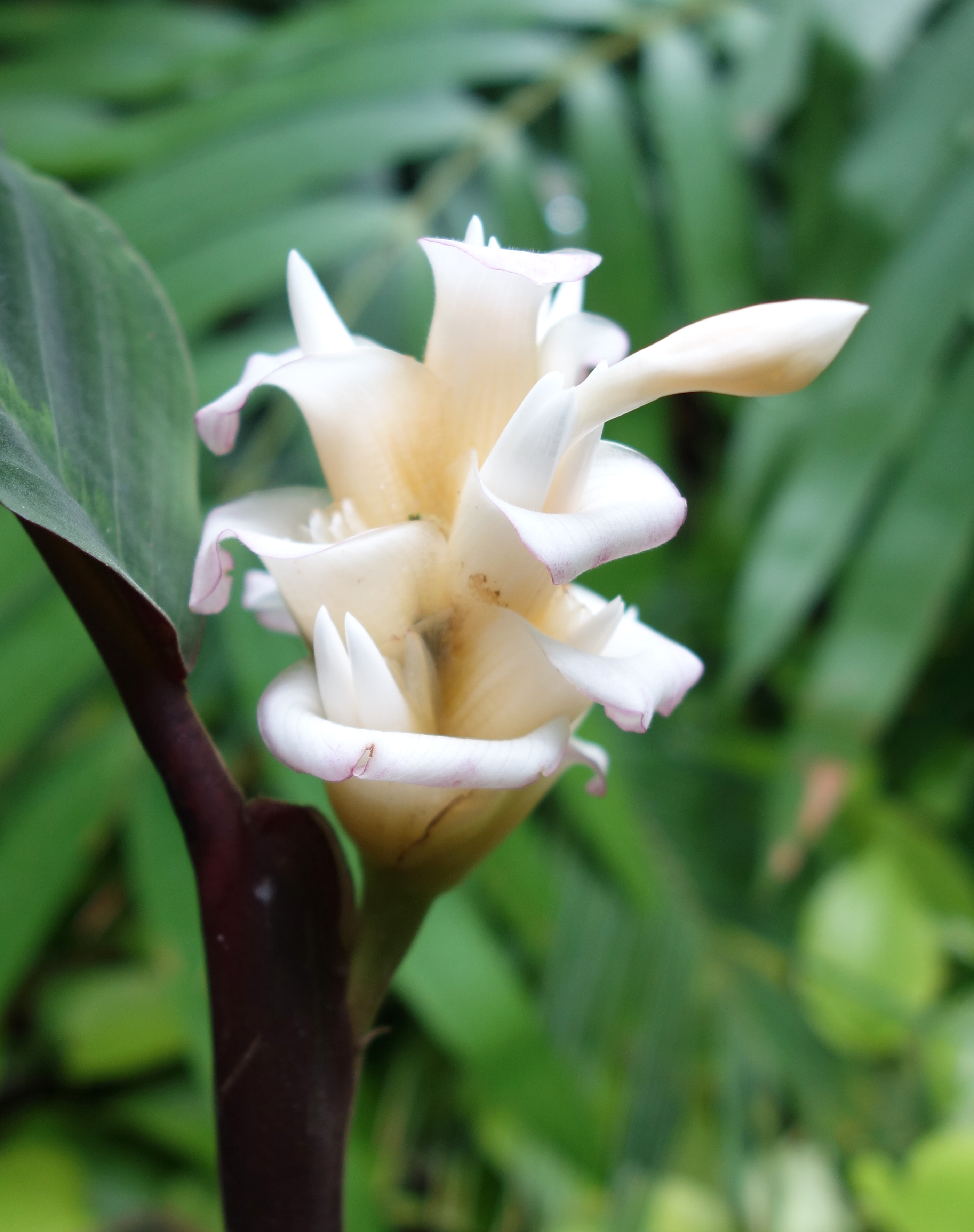 Conservatory of Flowers - San Francisco, California, USA.